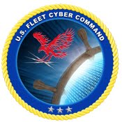 Fleet Cyber Command